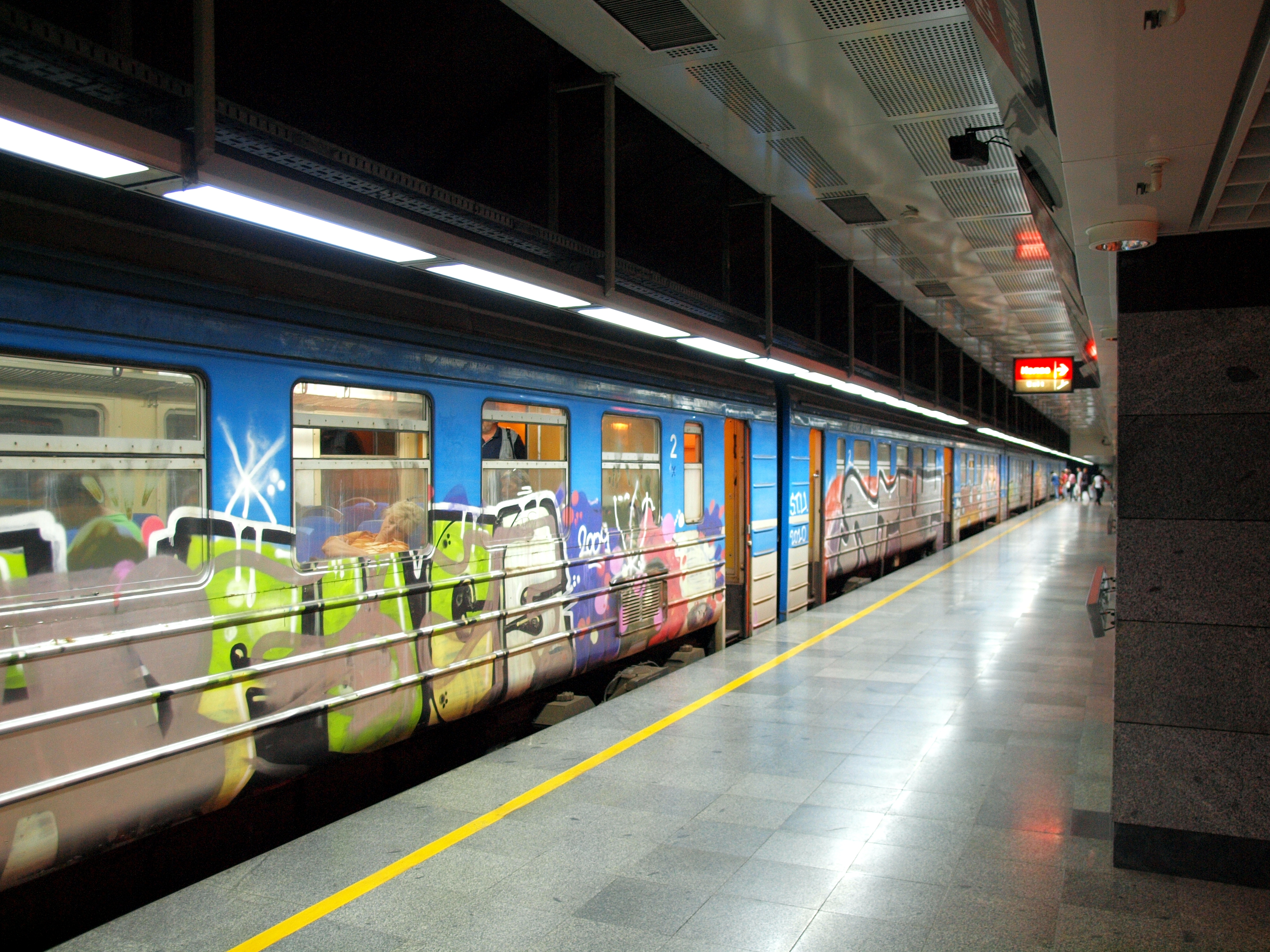 Beovoz in Vukov spomenik